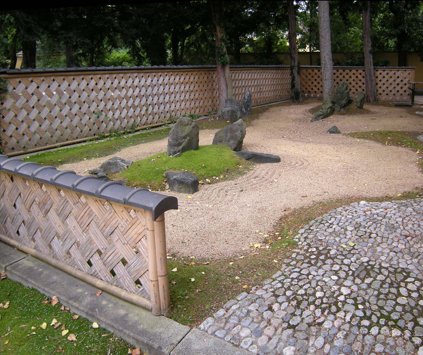 Japanese Garden (Schönbrunn; 'Karesansui' part - Turtle Island, Mount Horai, Crane Island) 20080613 054